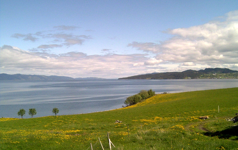 Trondheimsfjorden seen from the island of Tautra, Frosta.